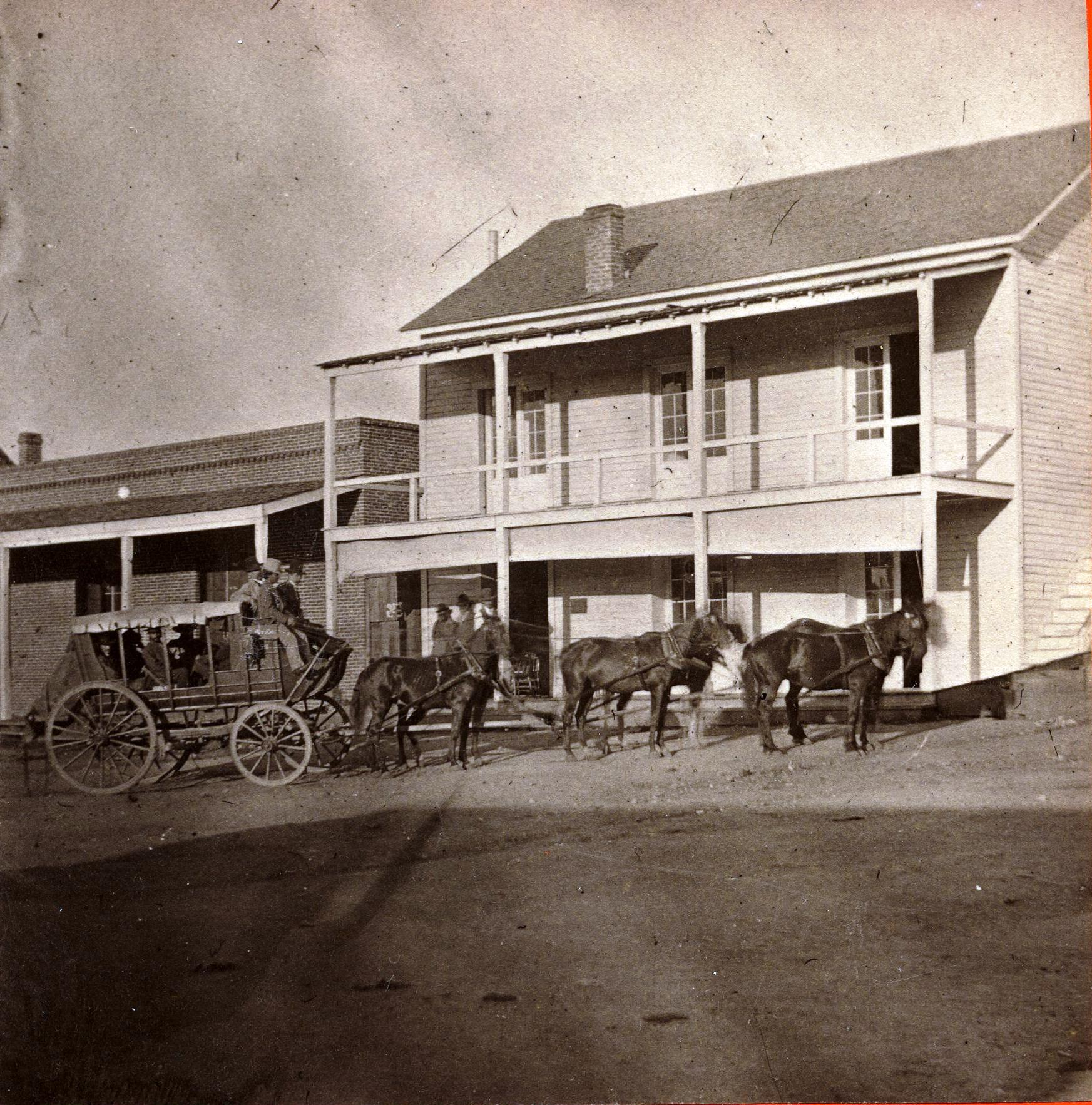 The first Yavapai County Courthouse and Jail, a wood frame structure, was built on North Cortez Street in the present-day location of the Masonic Temple building. (Photo courtesy Sharlot Hall Museum call number: BU-H-7026p)